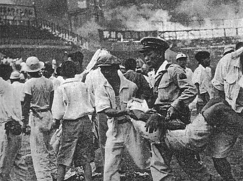 Chunichi Stadium Fire